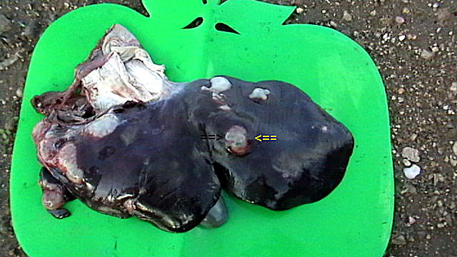 Hydatid cyst in liver of sheep Walon: kisses idatikes sol foete d' on bedot